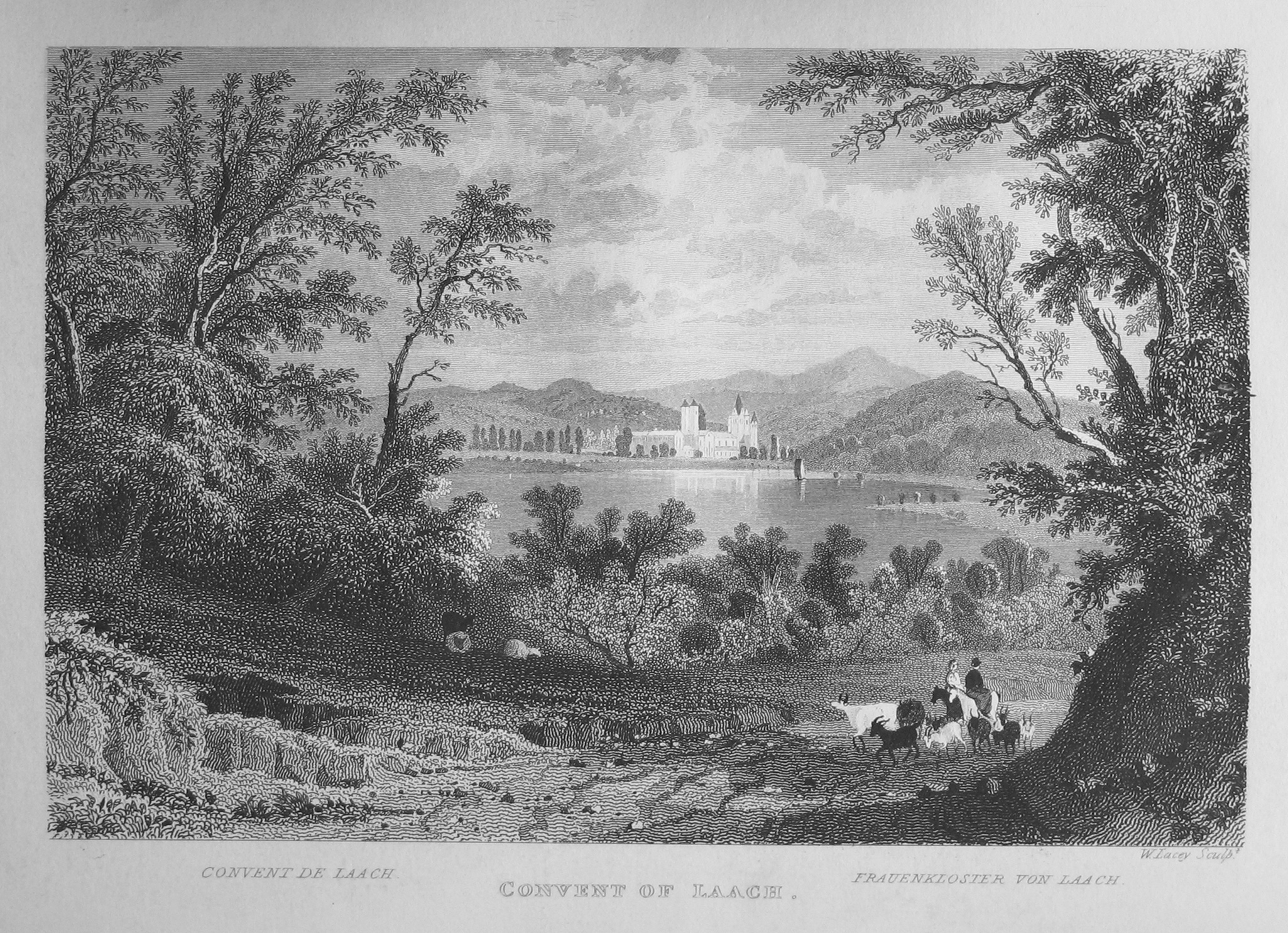 Steel engraving from "Views of the Rhine" by William Tombleson (around 1840): Convent of Laach